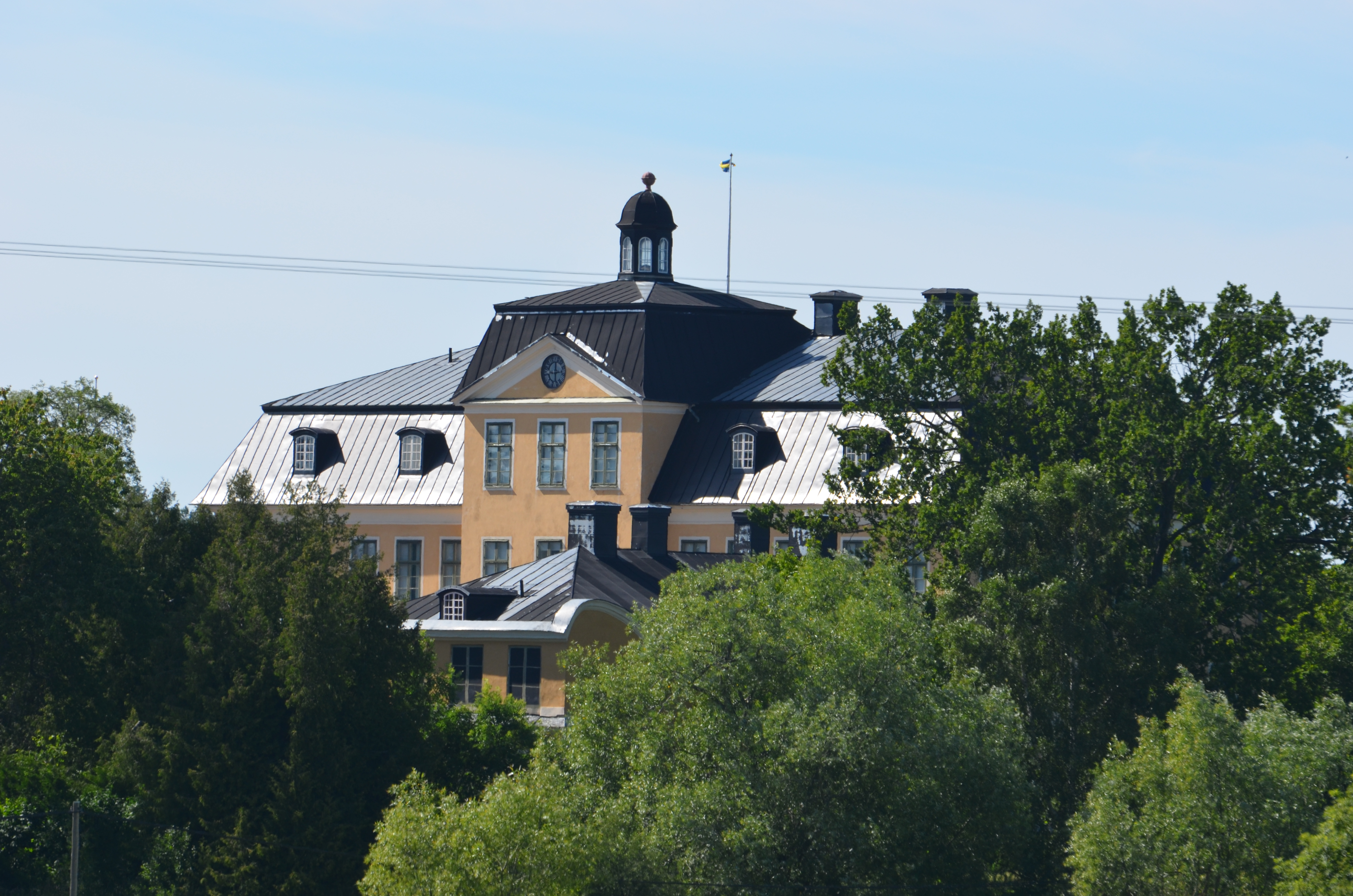 Thorönsborg, Söderköpings kommun